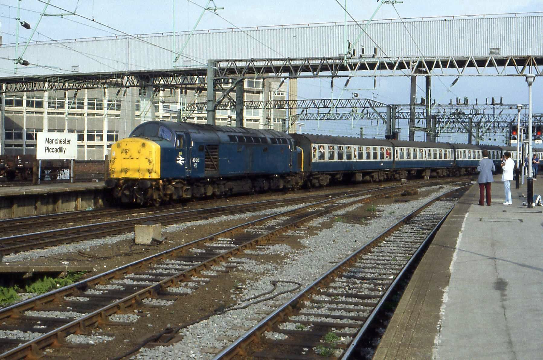 40013 Manchster Piccadilly